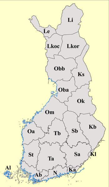 Biogeographical provinces of Finland